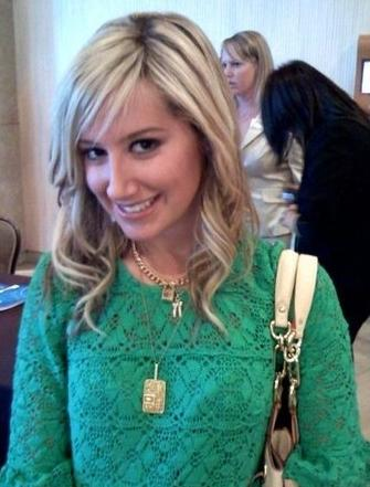 Ashley Tisdale on ABC